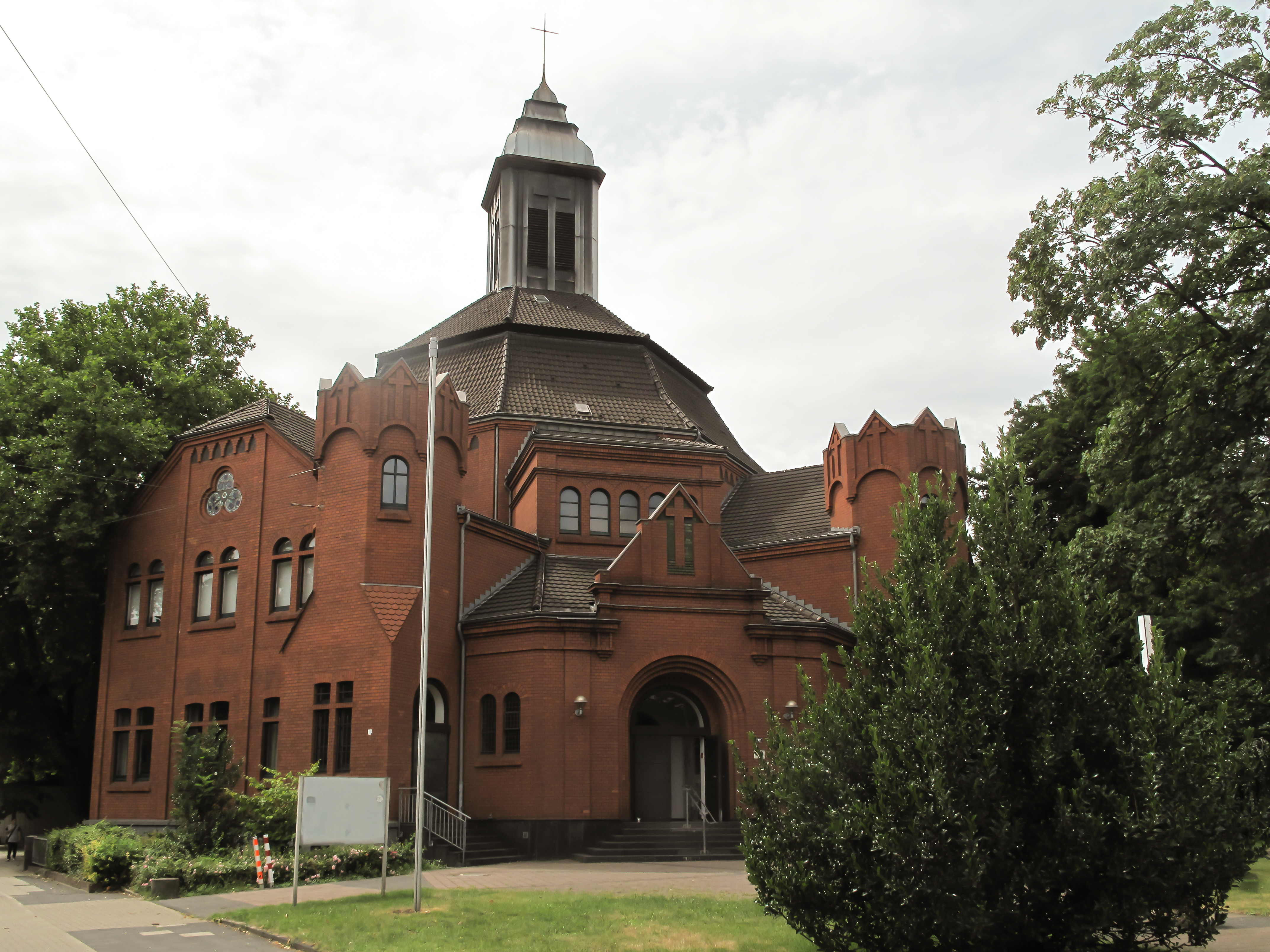 Oberhausen, church: die PauluskircheThis is a photograph of an architectural monument., no. 33